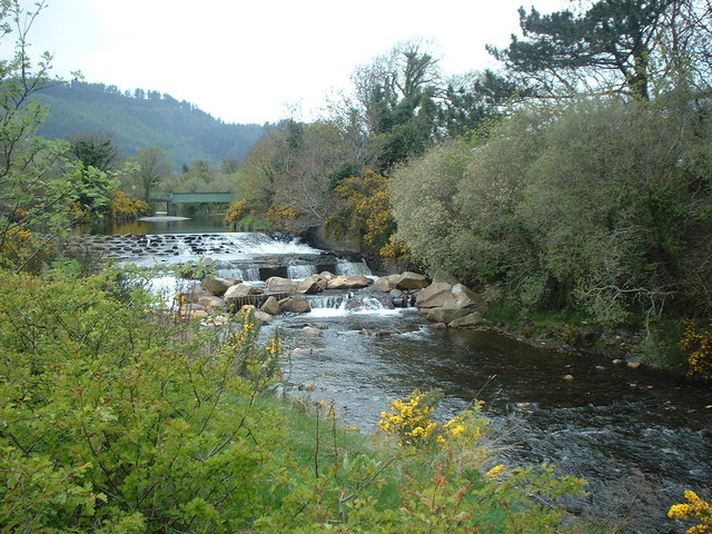 Sulby River at Sulby Claddaghs